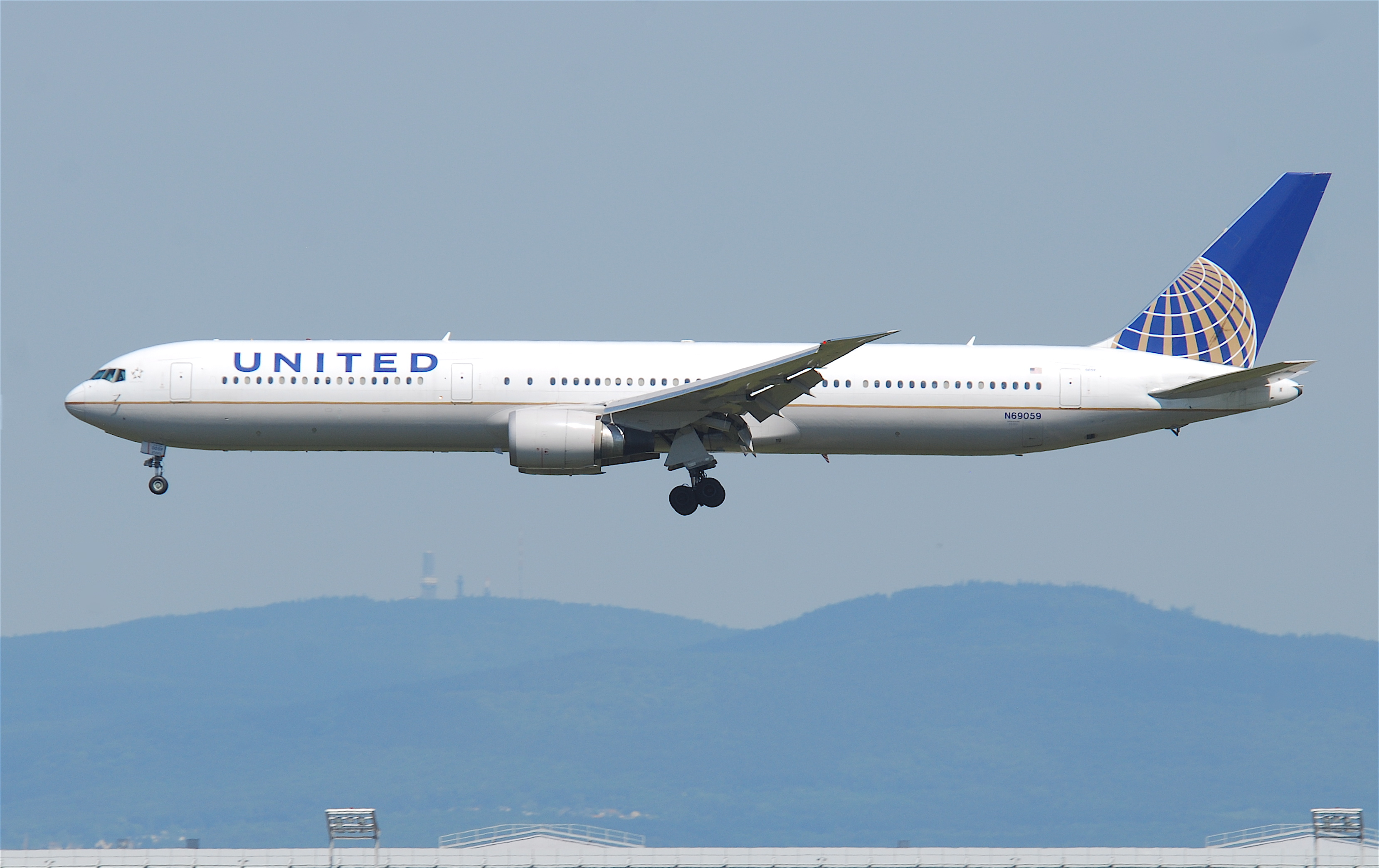 United Airlines Boeing 767-400; N69059@FRA;16.07.2011/609dx